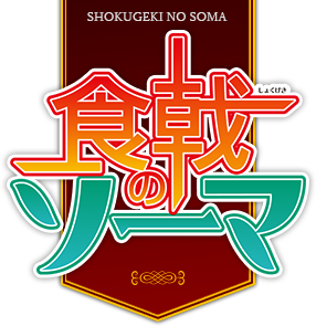 Food Wars!: Shokugeki no Soma logo